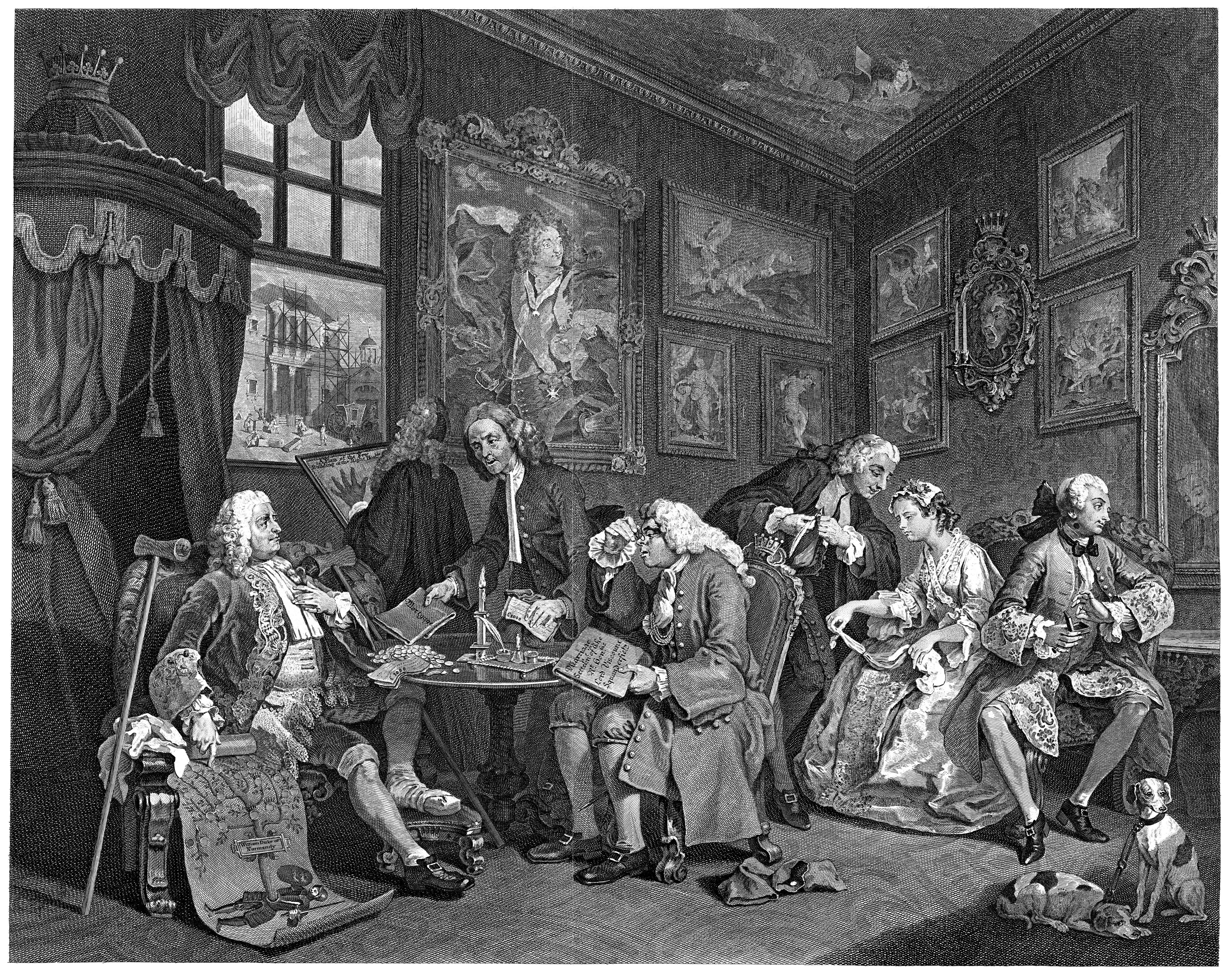 An engraved reproduction of part 1 of the Marriage à-la-mode series painted in 1743–1745 by William Hogarth. This version of the image is too large for MediaWiki's image thumbnailing feature; for a smaller version, see Image:Hogarth Marriage-a-la-mode reproduction 1.png.